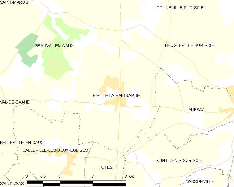 Map of French municipality Biville-la-Baignarde